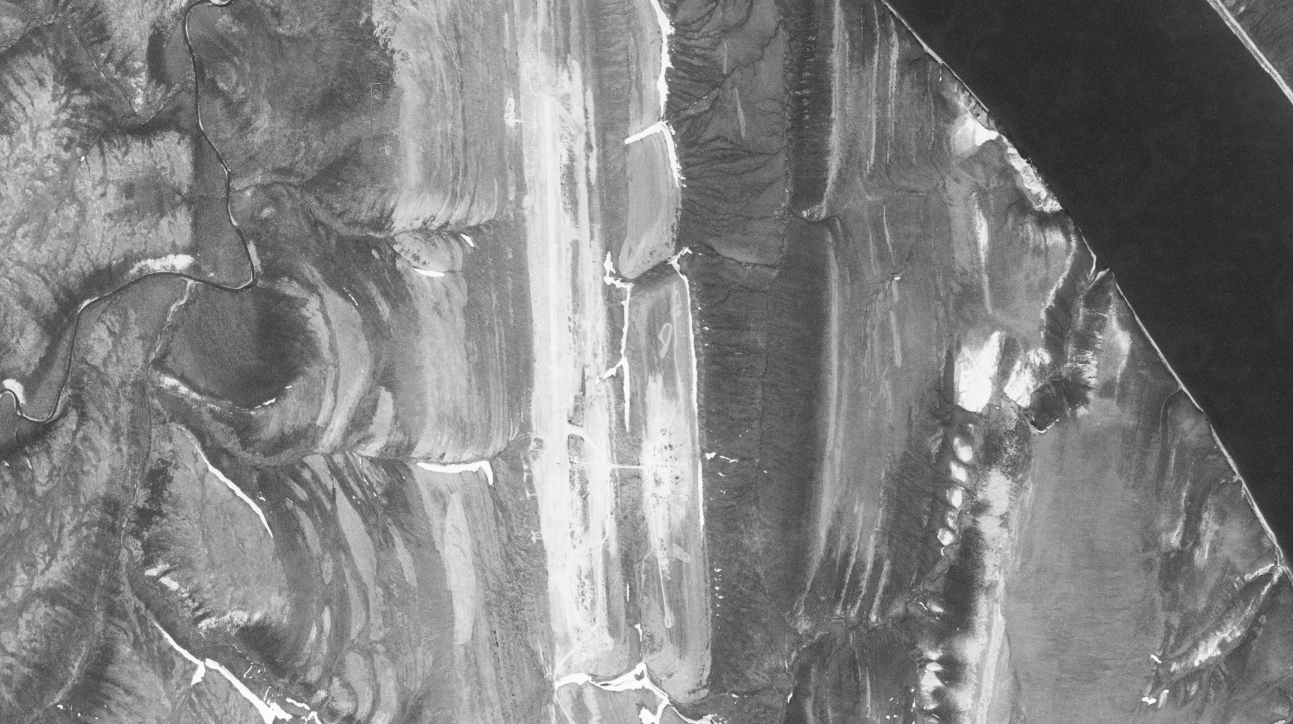 Chekurovka Airfield, south of Tiksi, from US Department of Defense KH-7 GAMBIT satellite, from USGS holdings. A small airplane is visible on the runway centerline just below the center. Raw zoomed imagery shows it is probably an Ilyushin Il-12 or Lisunov Li-2.